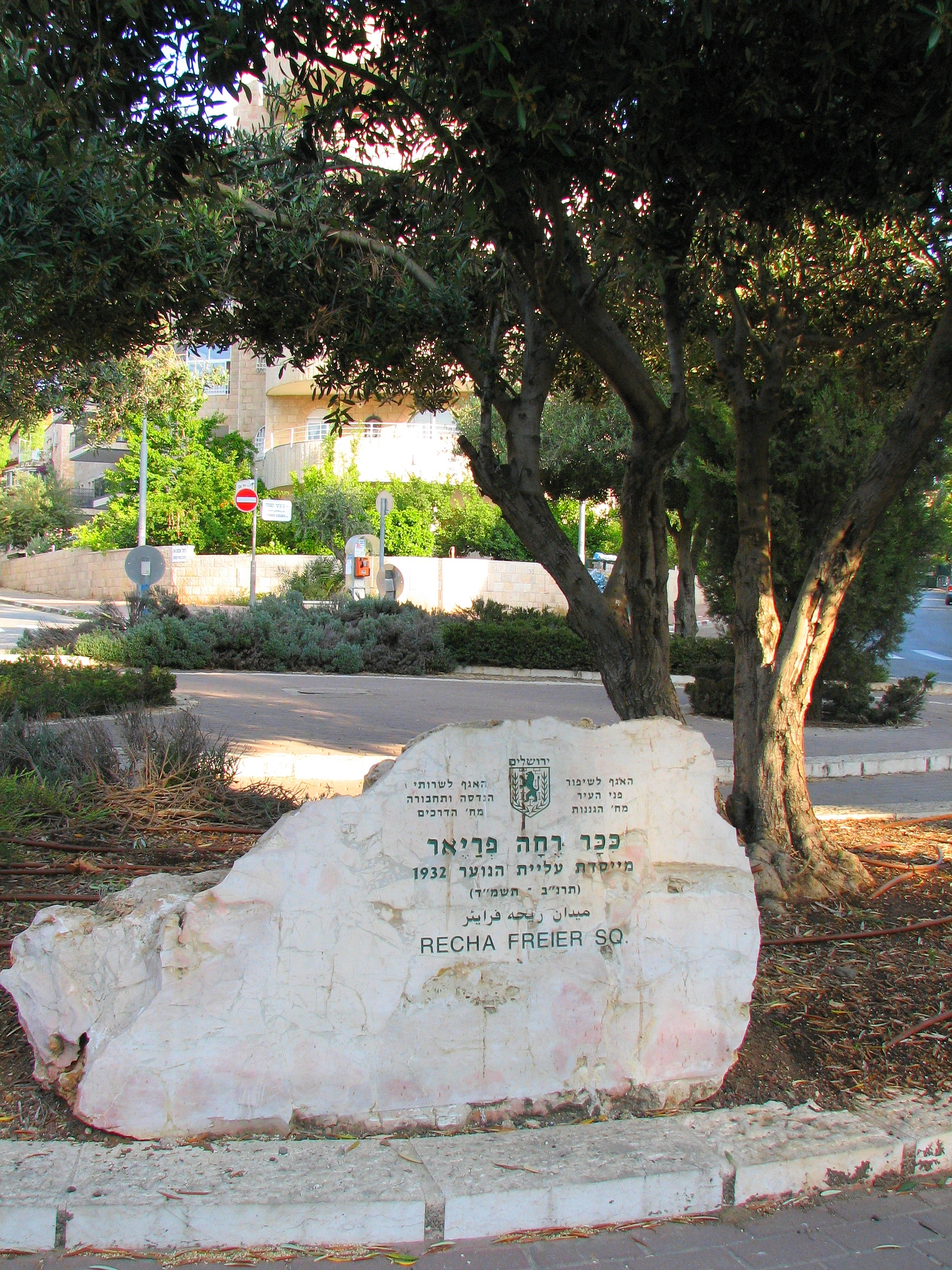 Recha Freier Square in the Katamon neighborhood of Jerusalem, at the intersection of Rachel Imenu and Kovshei Katamon streets.